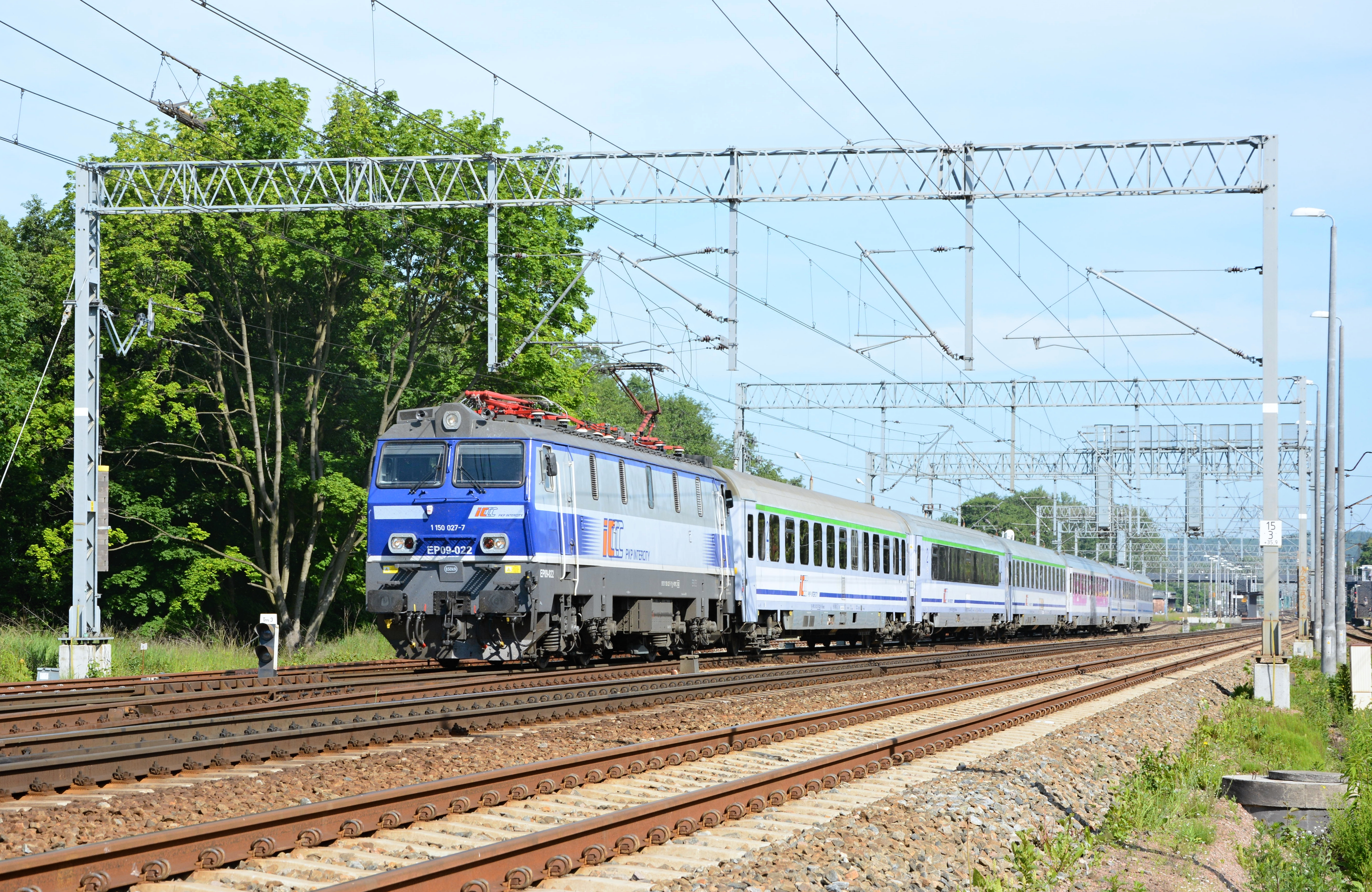 EP09-022 PKP Intercity, train EC 105 "Sobieski" from Gdynia to Wien, Gdynia Orłowo station, Poland